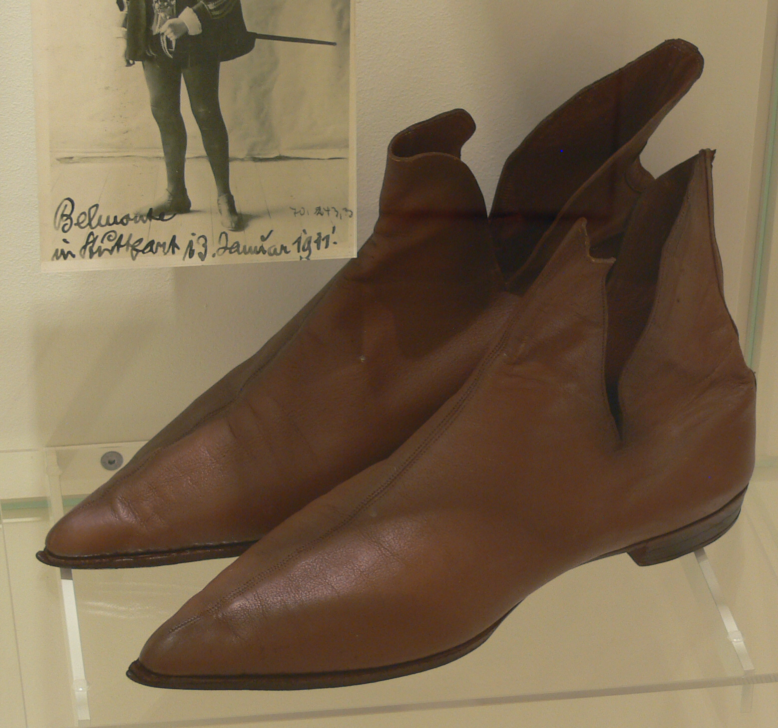 Museum Humpisquartier, Ravensburg Bühnenschuhe des Tenors Karl Erb, um 1920 (Nachlass Karl Erb) Humpis-Quartier Native nameMuseum Humpis-QuartierLocationRavensburg, GermanyCoordinates47° 46′ 49.8″ N, 9° 36′ 57.24″ E Established2009Web page control : Q1637298 VIAF: 128828875 LCCN: nb2007020847 GND: 4565586-8 WorldCat